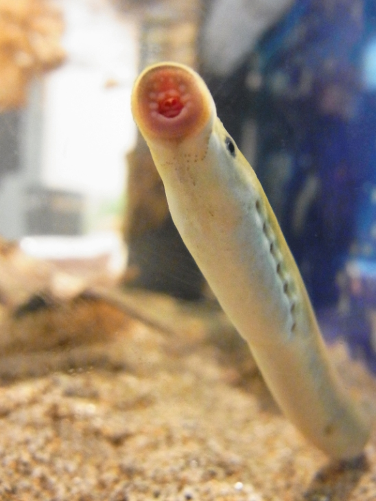 Adult-fish of Eastern-brook-lamprey(Lethenteron reissneri). It was sampled in Akita, Japan. the photo was taken in a tank.